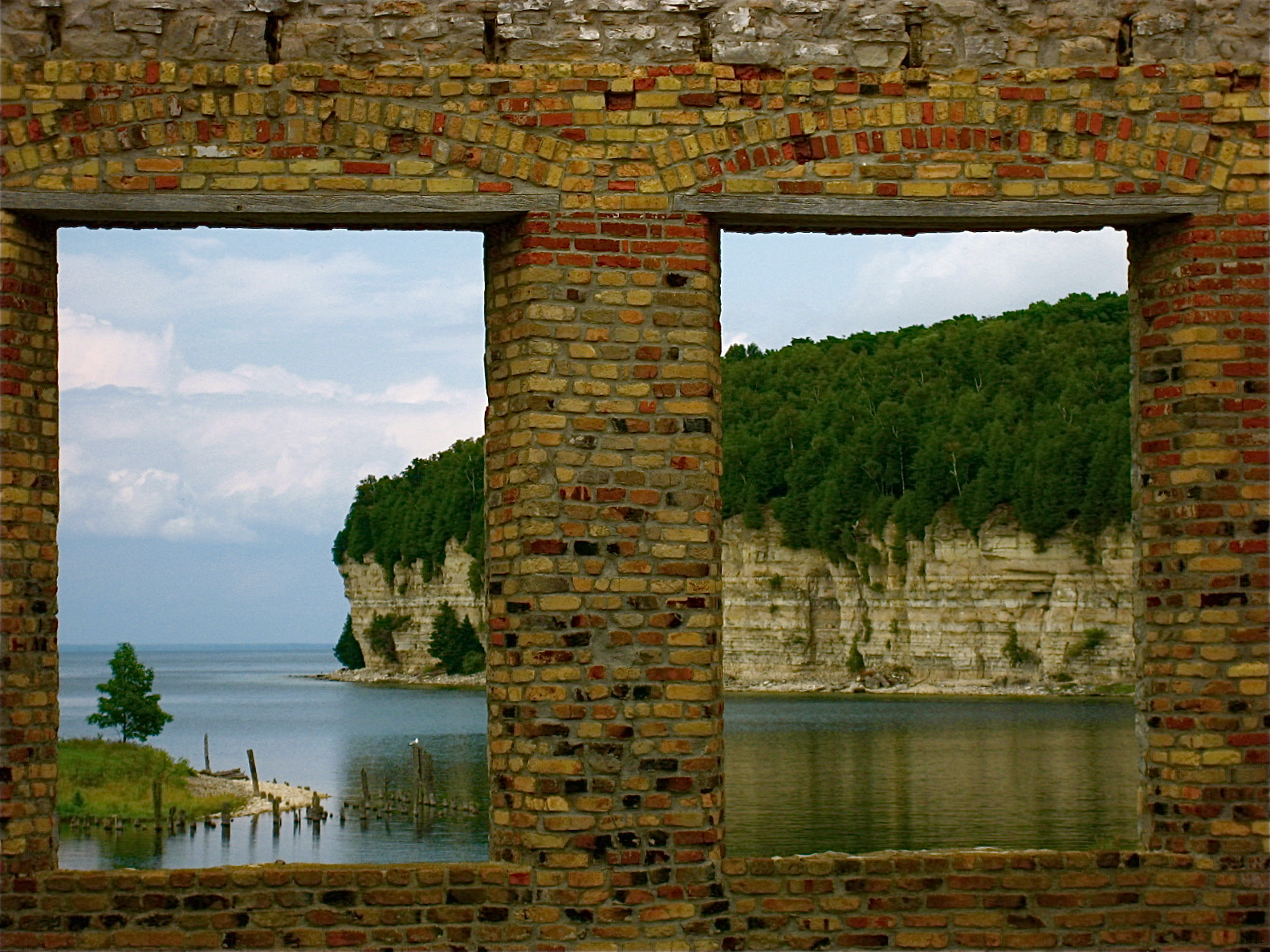 Fayette